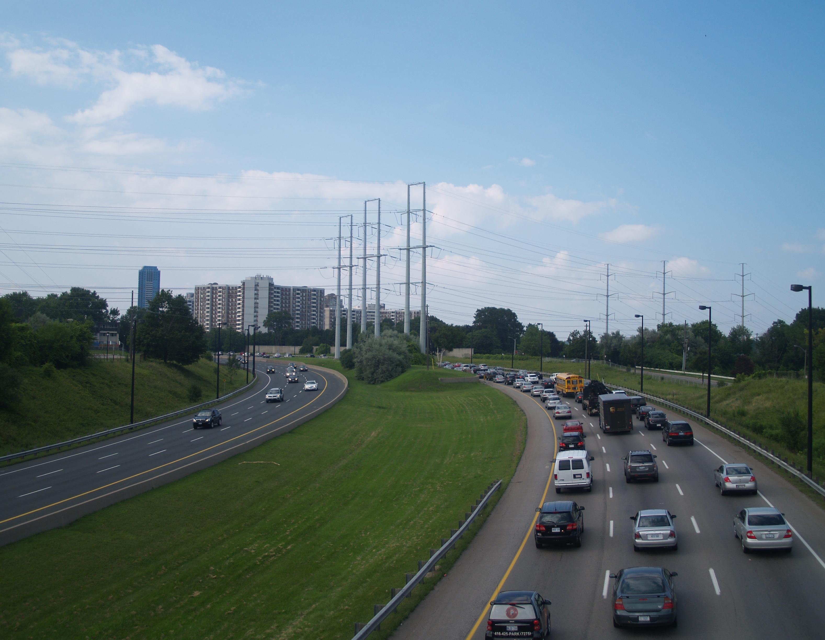 The Don Valley Parkway as it passes beneath the Gatineau Hydro Corridor, a high-tension power transmission line between Toronto and Ottawa that connects with Pickering and Darlington Nuclear plants.